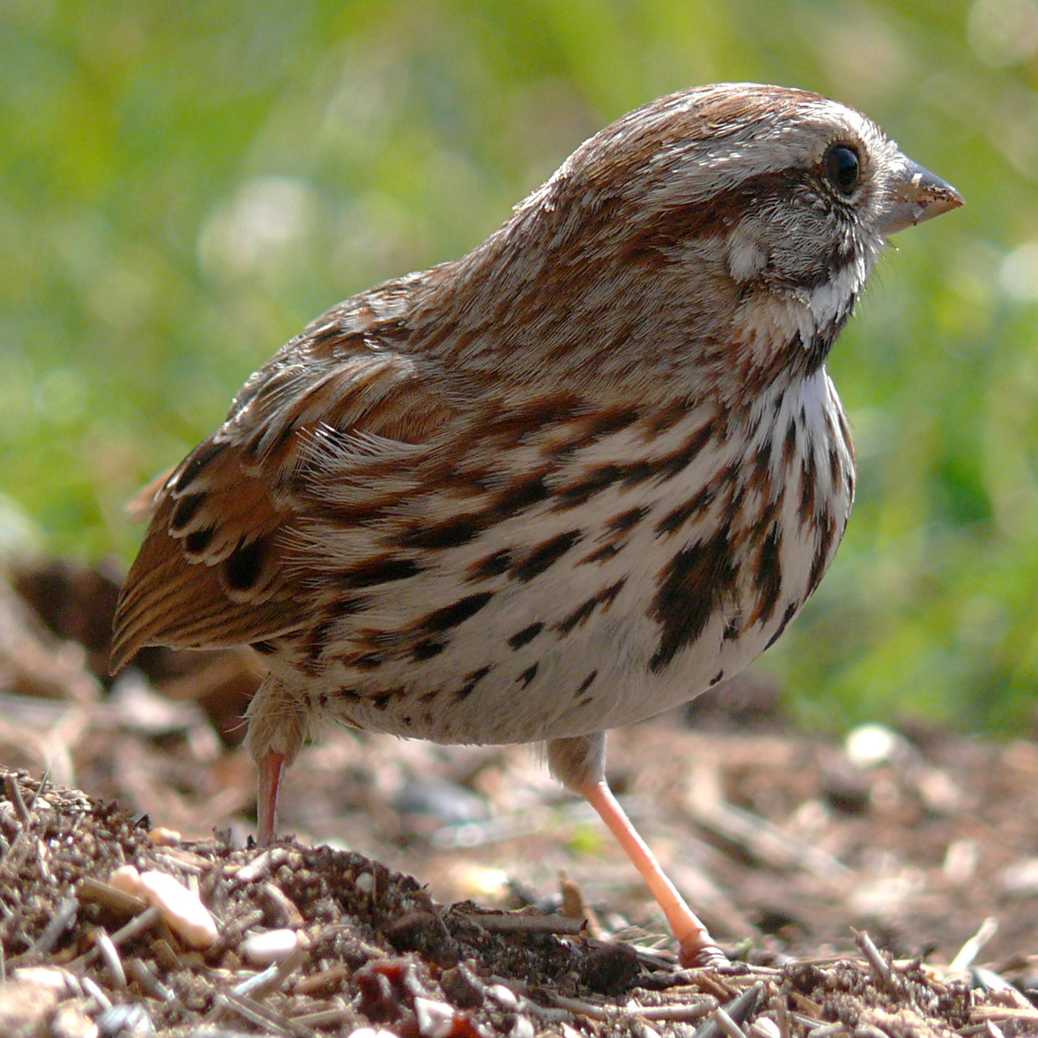 A Song Sparrow (Melospiza melodia) feeding on the ground. Photo taken with a Panasonic Lumix DMC-FZ50 in Caldwell County, North Carolina, USA.